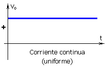 Diagram of DC voltage